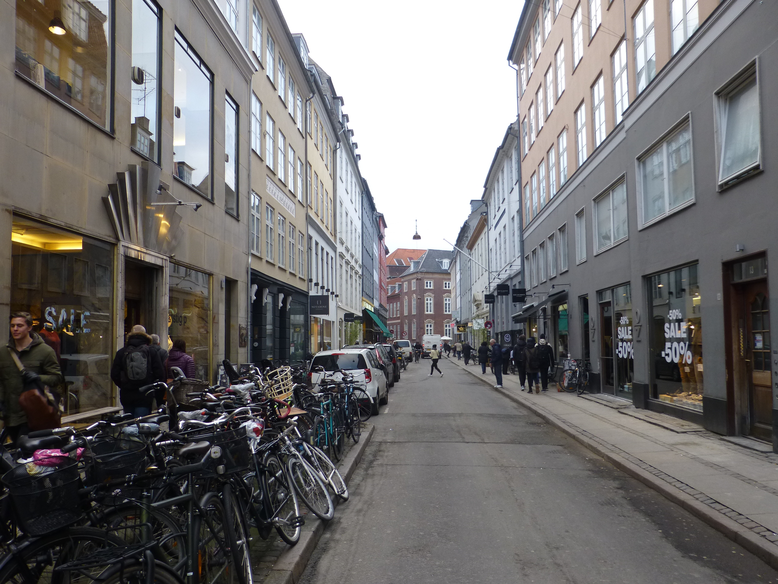 The street Kronprinsensgade in Indre By in Copenhagen.